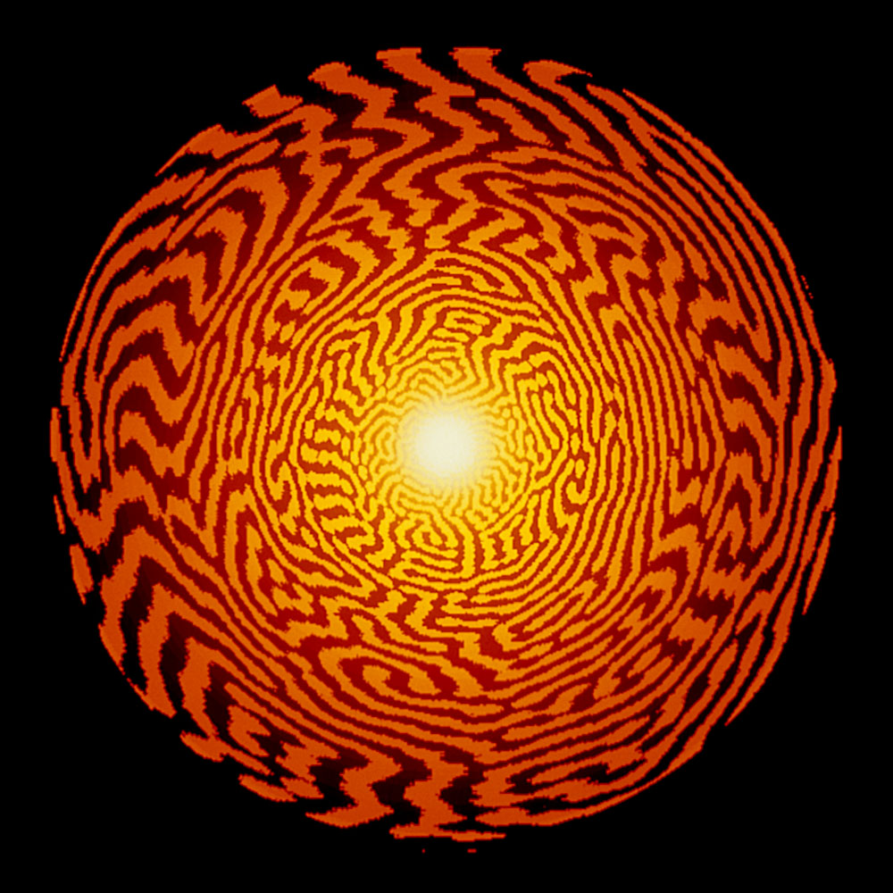 HALLUCINOSIS -- Biomathematical simulation of a hallucinosis (pseudohallucination) such as may occur during a near-death experience or under the influence of psychoactive substances. The simulation is described in: Mario Markus: Halluzinationen: ihre Entstehung in der Hirnrinde kann im Computer simuliert werden, in: Adolf Dittrich, Albert Hofmann, Hanscarl Leuner (Hrsg): Welten des Bewusstseins, Band 3: Experimentelle Psychologie, Neurobiologie und Chemie, Verlag für Wissenschaft und Bildung, 1994, ISBN 3-86135-402-0.